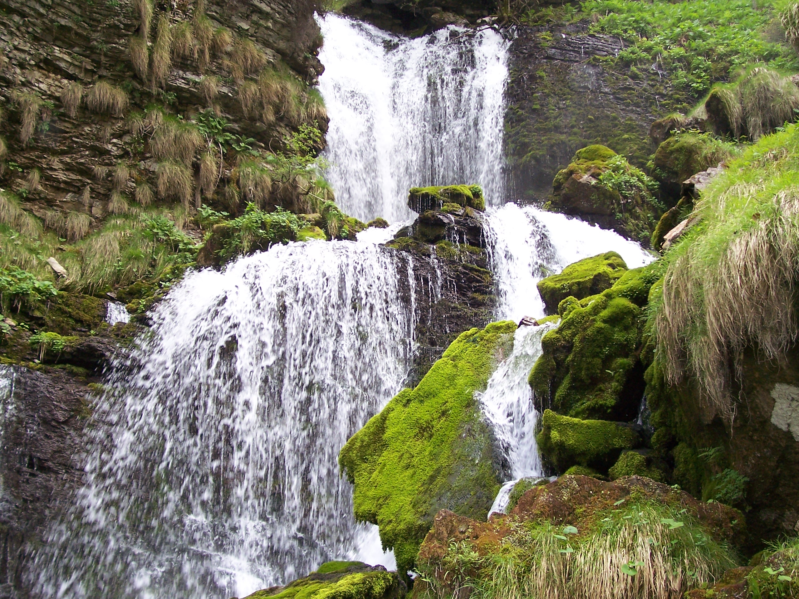 The spring of stream Enna, in Lombardy, Italy